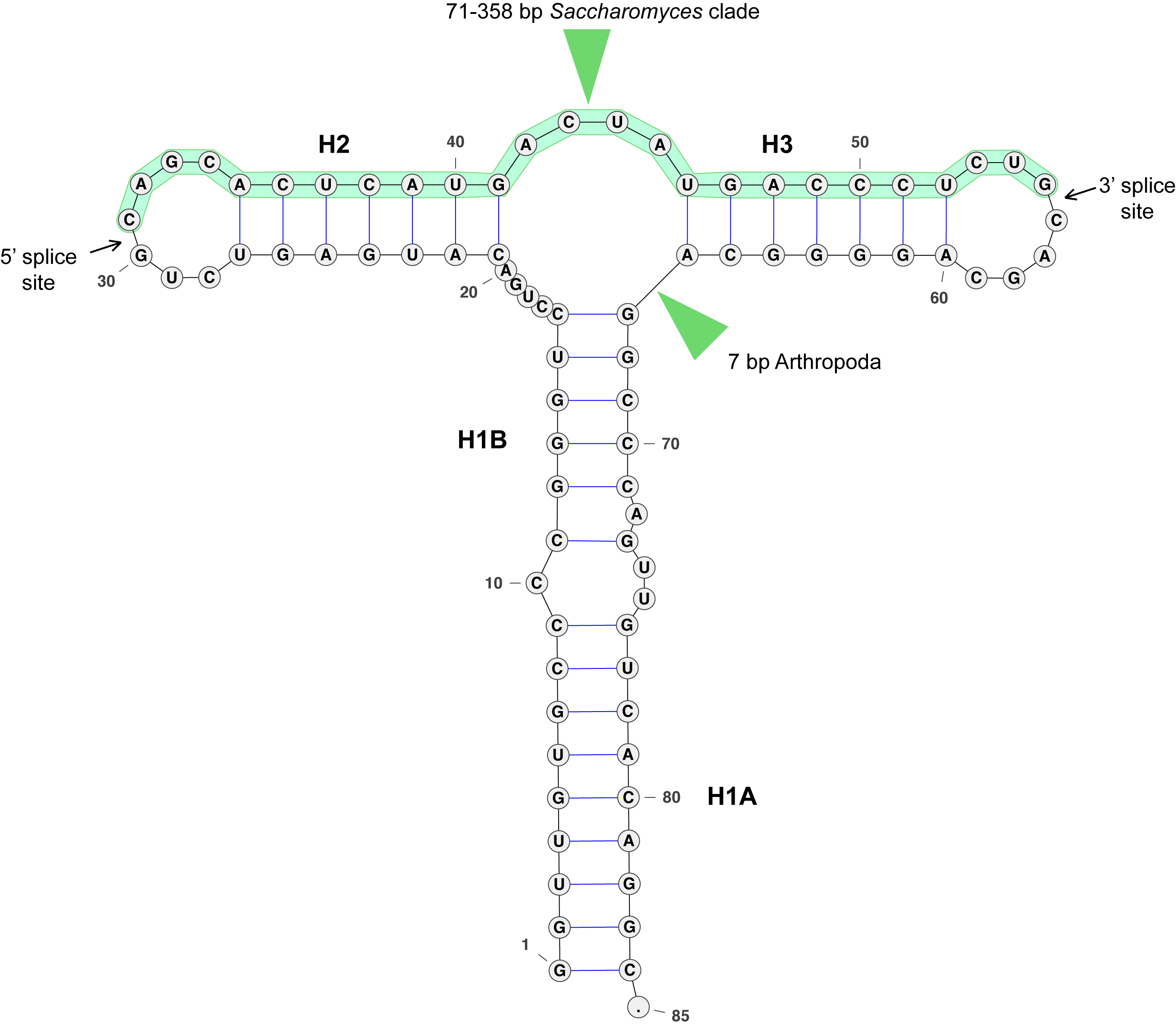 Consensus structure of HAC1/XBP1 mRNA with indicated conserved helices. Black arrows mark non-canonical intron splice sites. Green triangles indicate inserts. The image of secondary structure was created with VARNA.